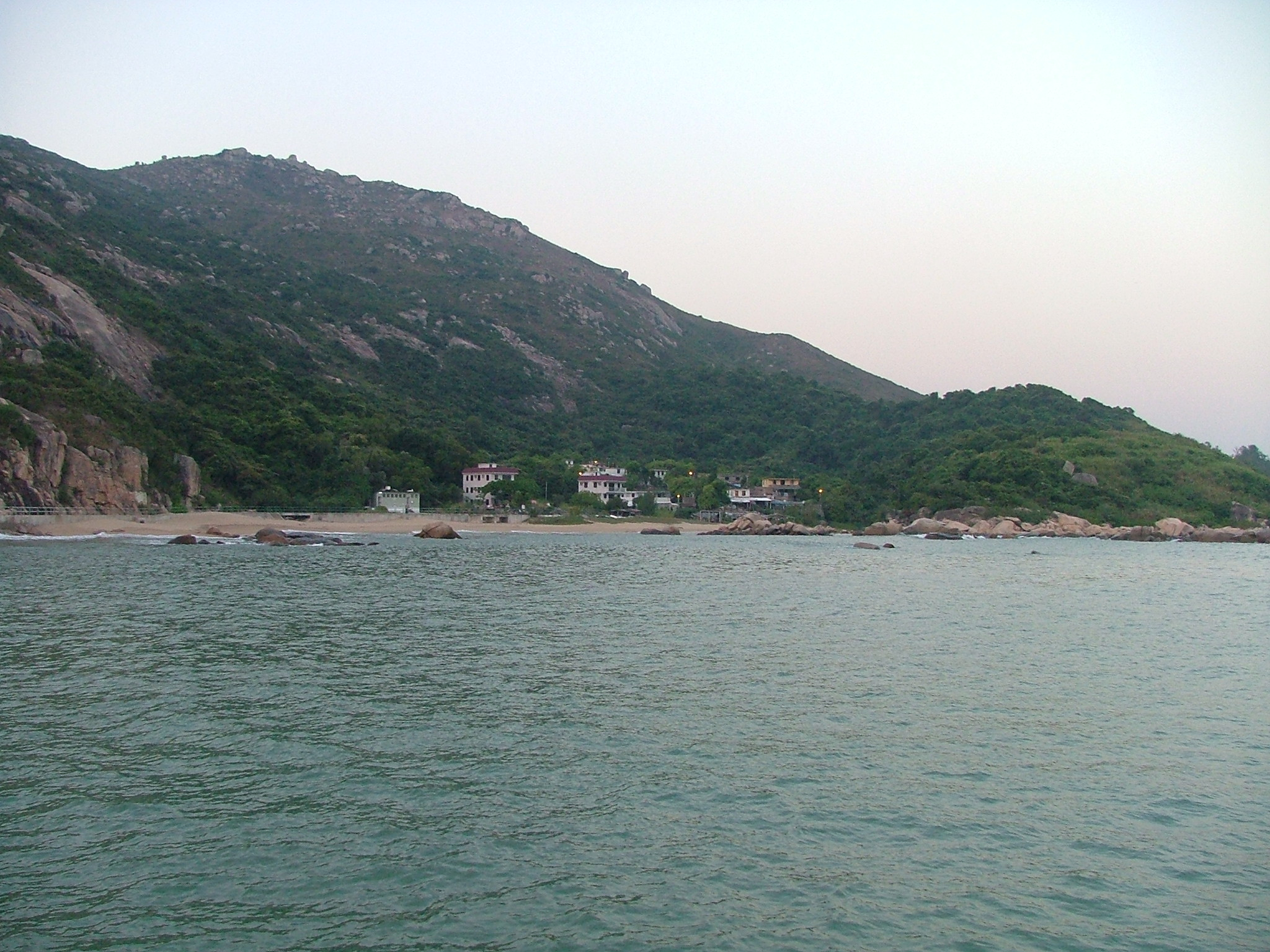 Yung Shue Ha village from Tung O Wan ferry pier. - by me, for Wikipedia.